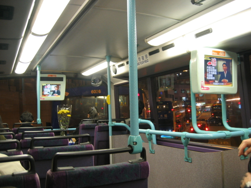 FirsTVision TV